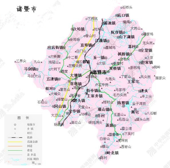 Zhuji map